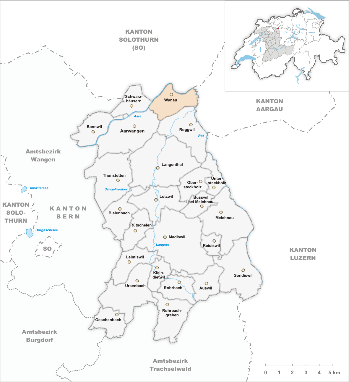 Municipality Wynau